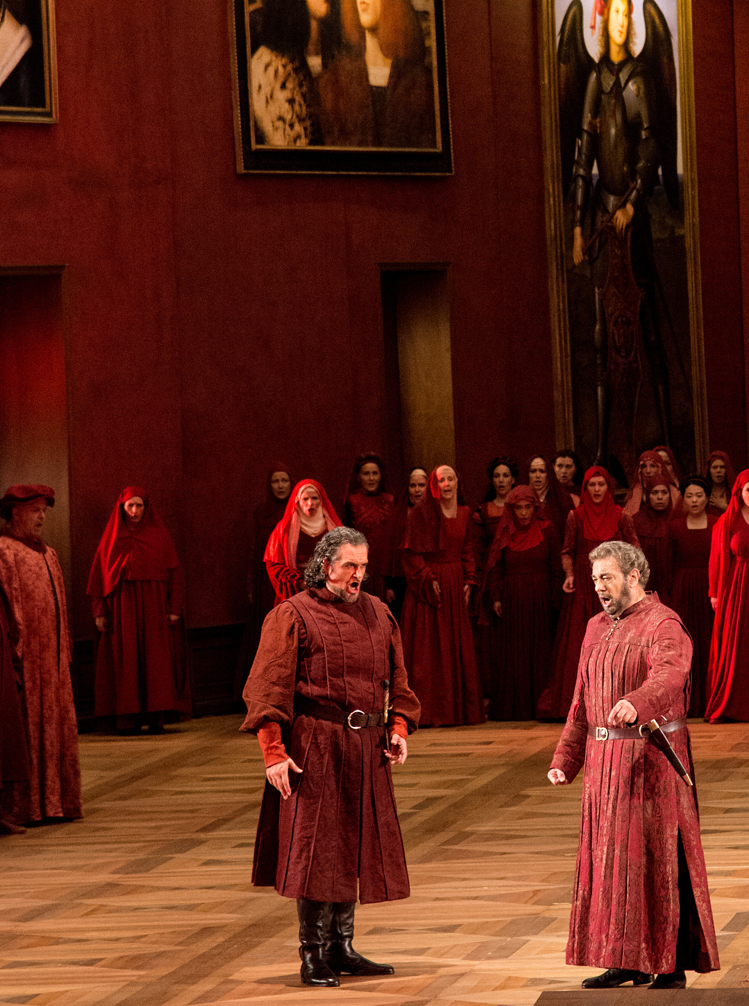 Il Trovatore, Salzburg Festival 2014 with Riccardo Zanellato (Ferrando), Plácido Domingo (Conte di Luna) and the Chorus of Vienna State Opera